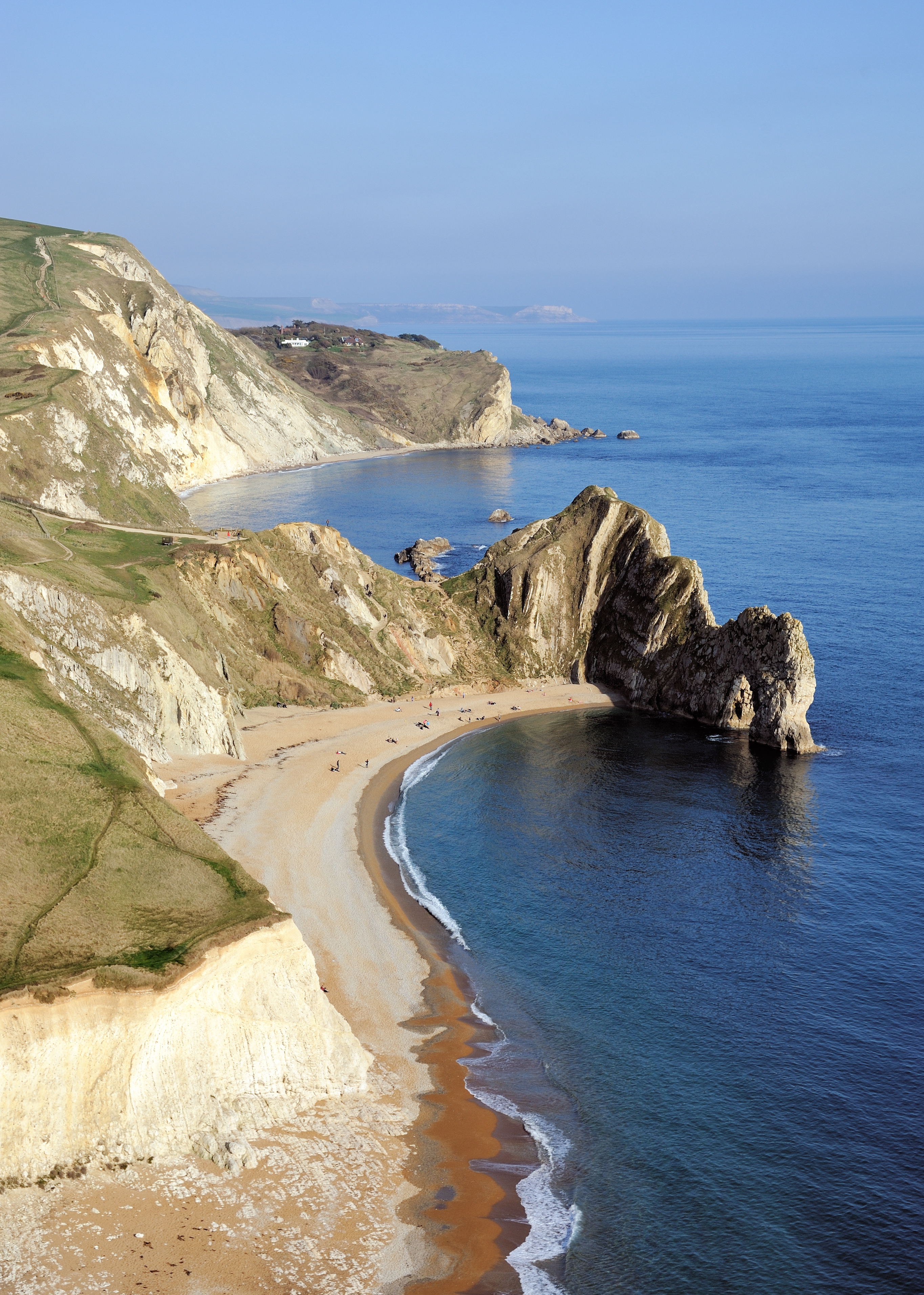 Durdle Door is a natural limestone arch on the Jurassic Coast near Lulworth in Dorset, England.